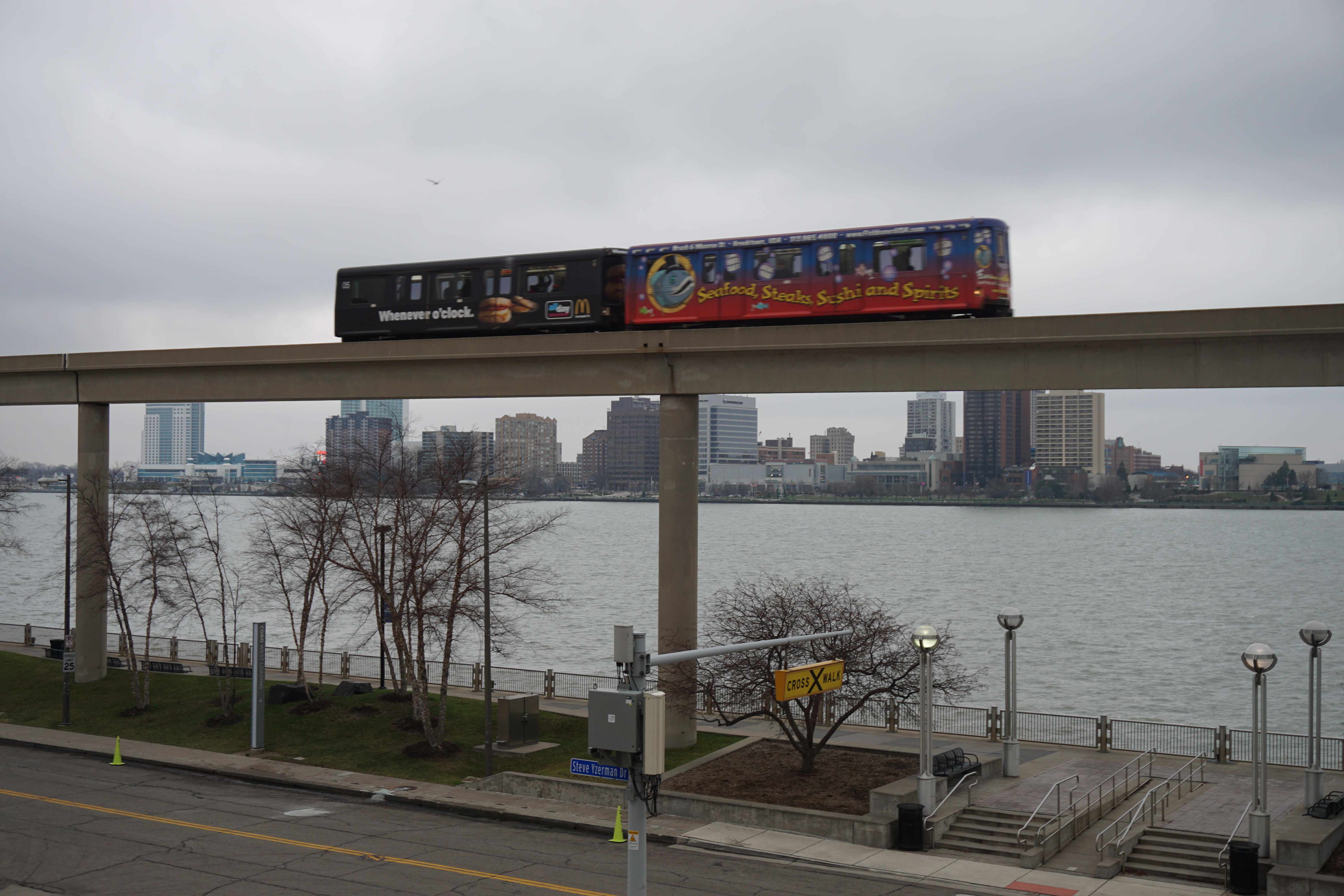 The Detroit People Mover approaching Joe Louis Arena in Detroit, Michigan (United States).